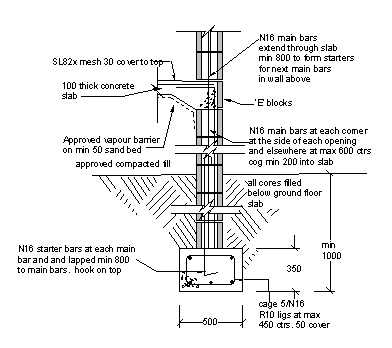 Sketch by Bill Bradley. billbeee 21:35, 21 May 2007 (UTC) Feel free to use it, just credit me as the creator. You can contact me through my website my website Sketch detail lifted from actual approved drawing, 2003.